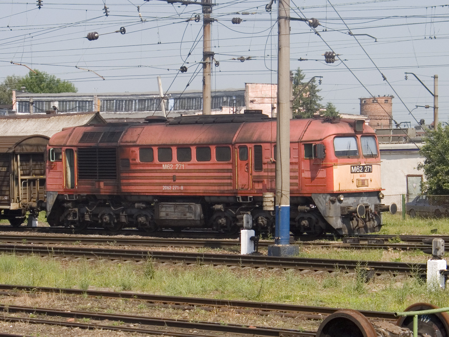 Hungarian locomotive M62 271 Локомотив M62 венгерских железных дорог